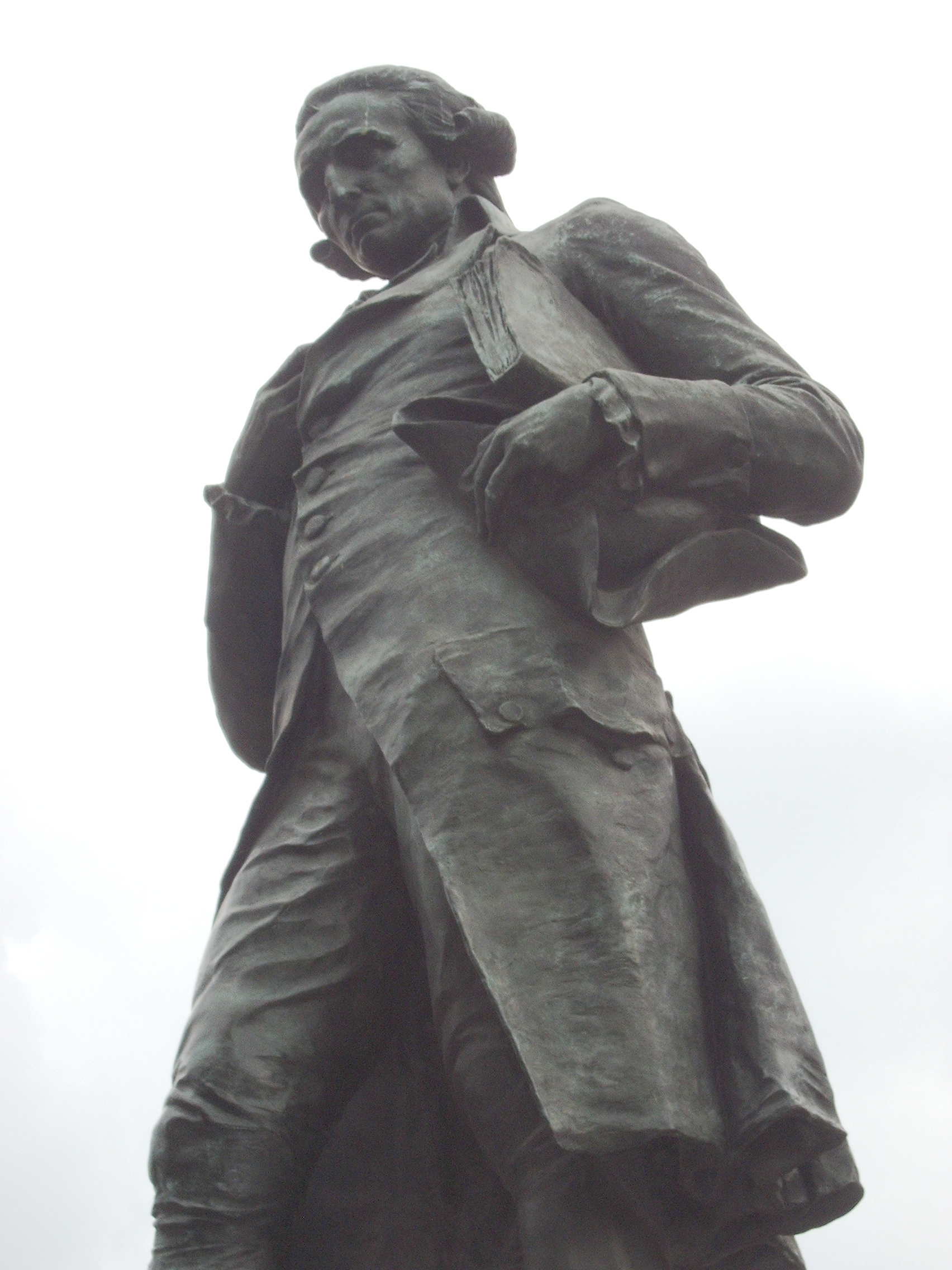 Nicolas de Condorcet's statue on the Quai de Conti, Paris Sculpture : Jacques Perrin (1847–1915) Description French sculptor Date of birth/death18471915Location of birth/deathLyonParis